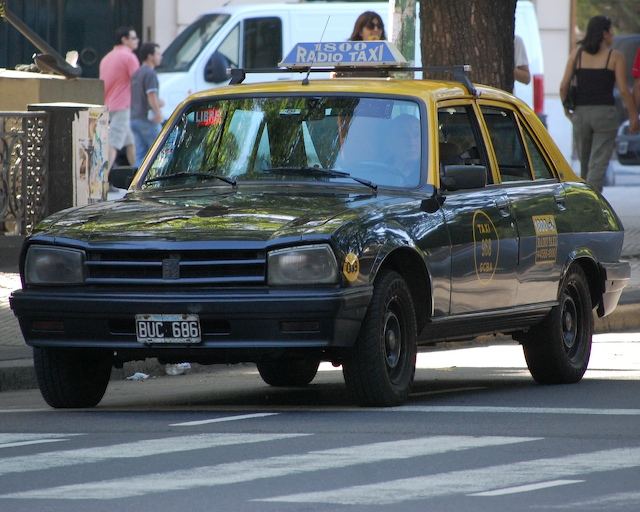 Some cars just last forever